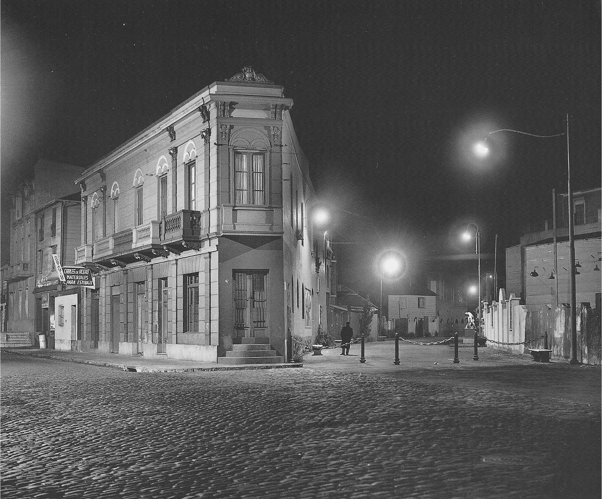 "Caminito", a pedestrian circuit in La Boca neighborhood of Buenos Aires.